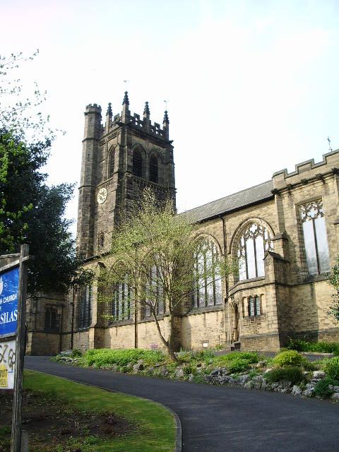 Photograph